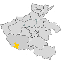 dengzhou map